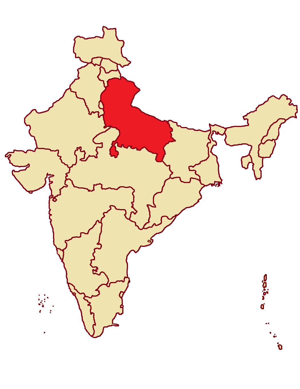 States and Union Territories of India, as of 1964-1965, i.e. between the creation of the state of Nagaland in 1963 and the Punjab Reorganization Act, 1966. Map does not include territories claimed by India but controlled by other countries. Borders not necessarily to scale. Based on File:States_of_India_(1964).png